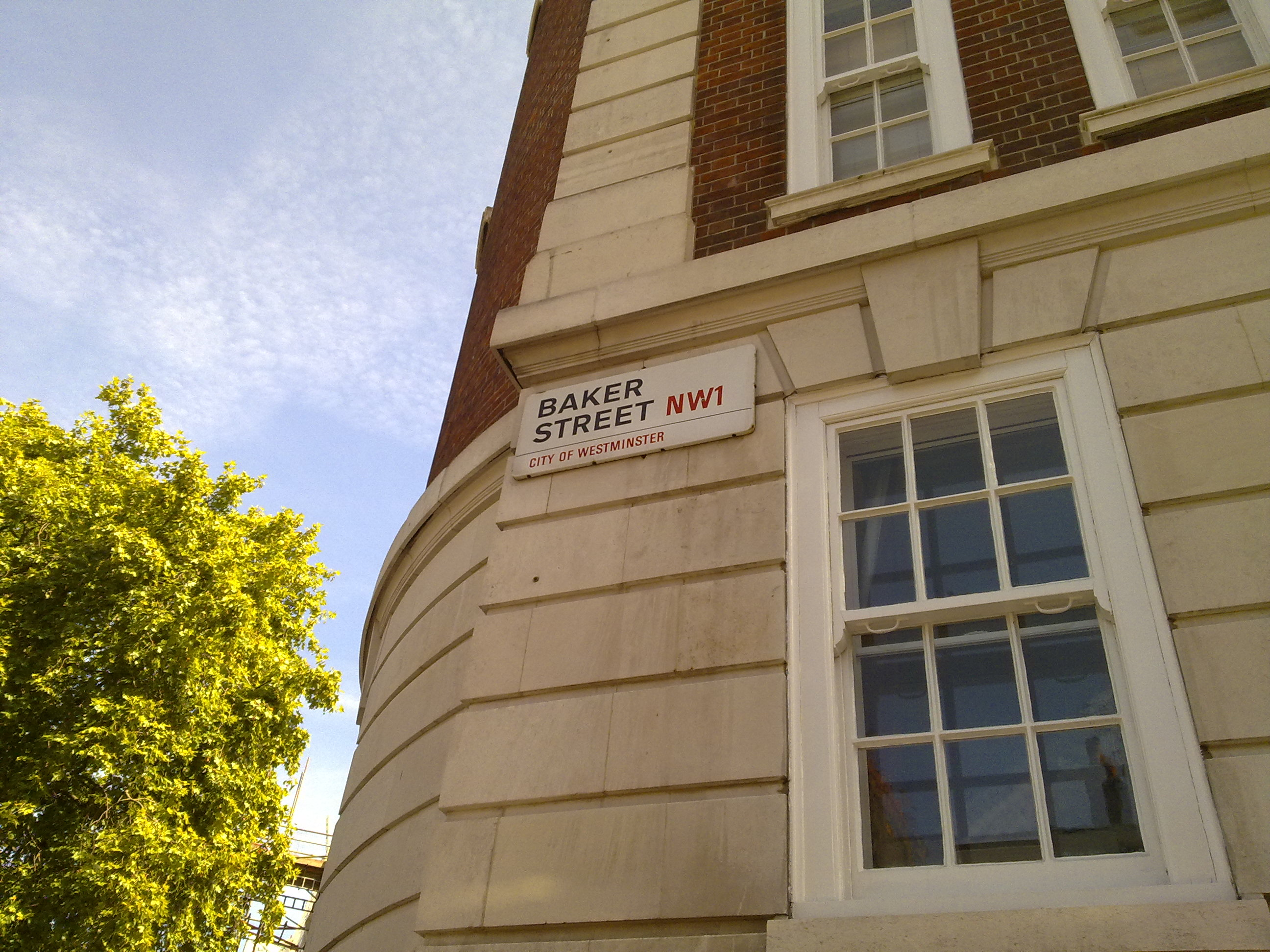 Baker Street, City of Westminster, street sign.